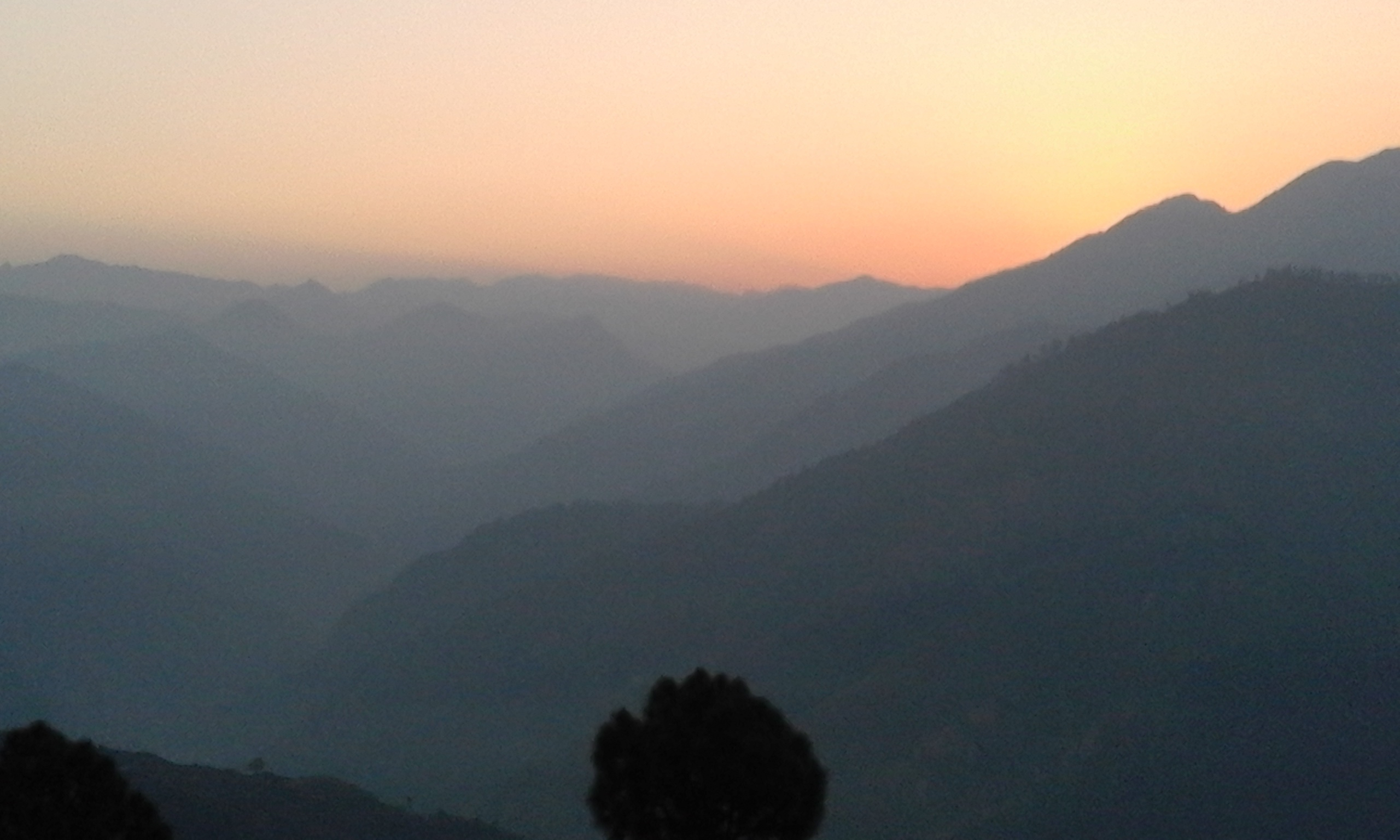 Sunrise from Lekam Gaupalikaa Darchula, Nepal.